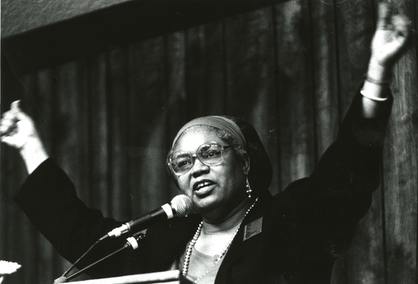 Patricia Stephens Due raises her arms as she makes a point at the memorial service for Judy Benninger [Brown] in Gainesville, Florida, in June 1991.